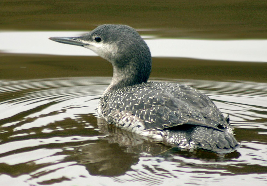 Juvenile red-throated diver (Gavia stellata)